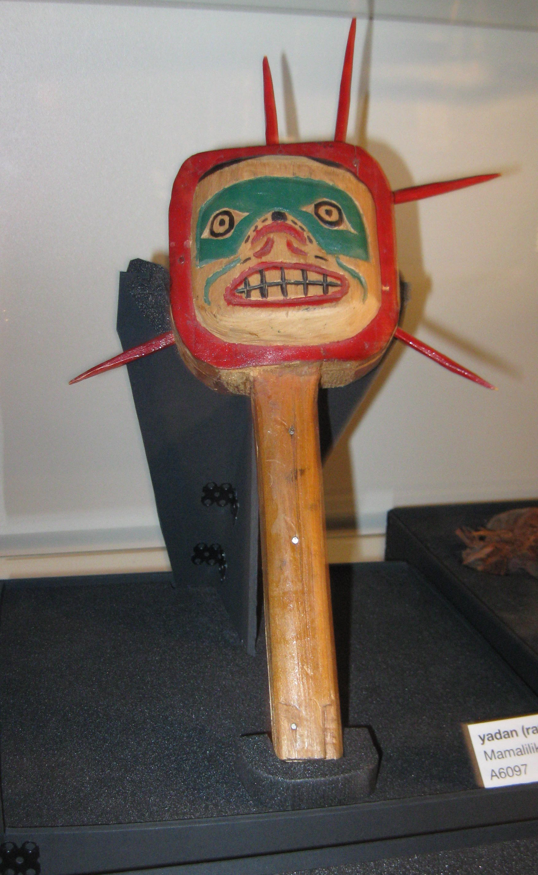 A brightly painted native Indian Mamalilikala peoples' rattle. This unique object is today in the collection of the UBC Museum of Anthropology in Vancouver, Canada. It was purchased by UBC in 1953. Its catalogue number is A6097.